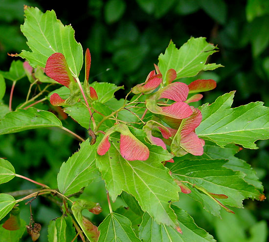 Acer ginnala